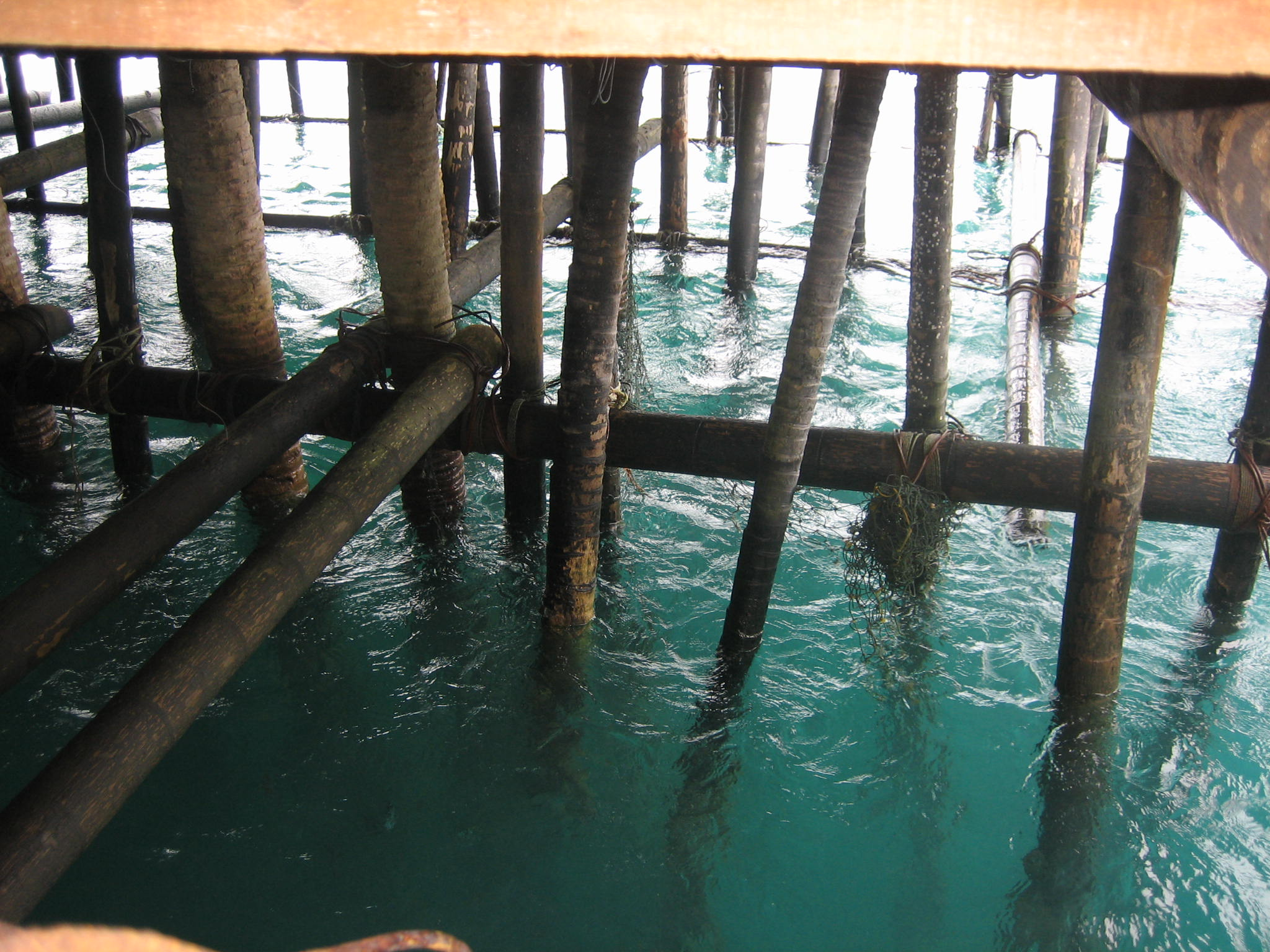 Underneath the kelong. An interesting note, they are built without nails. Just rope and the more modern bailing wire.